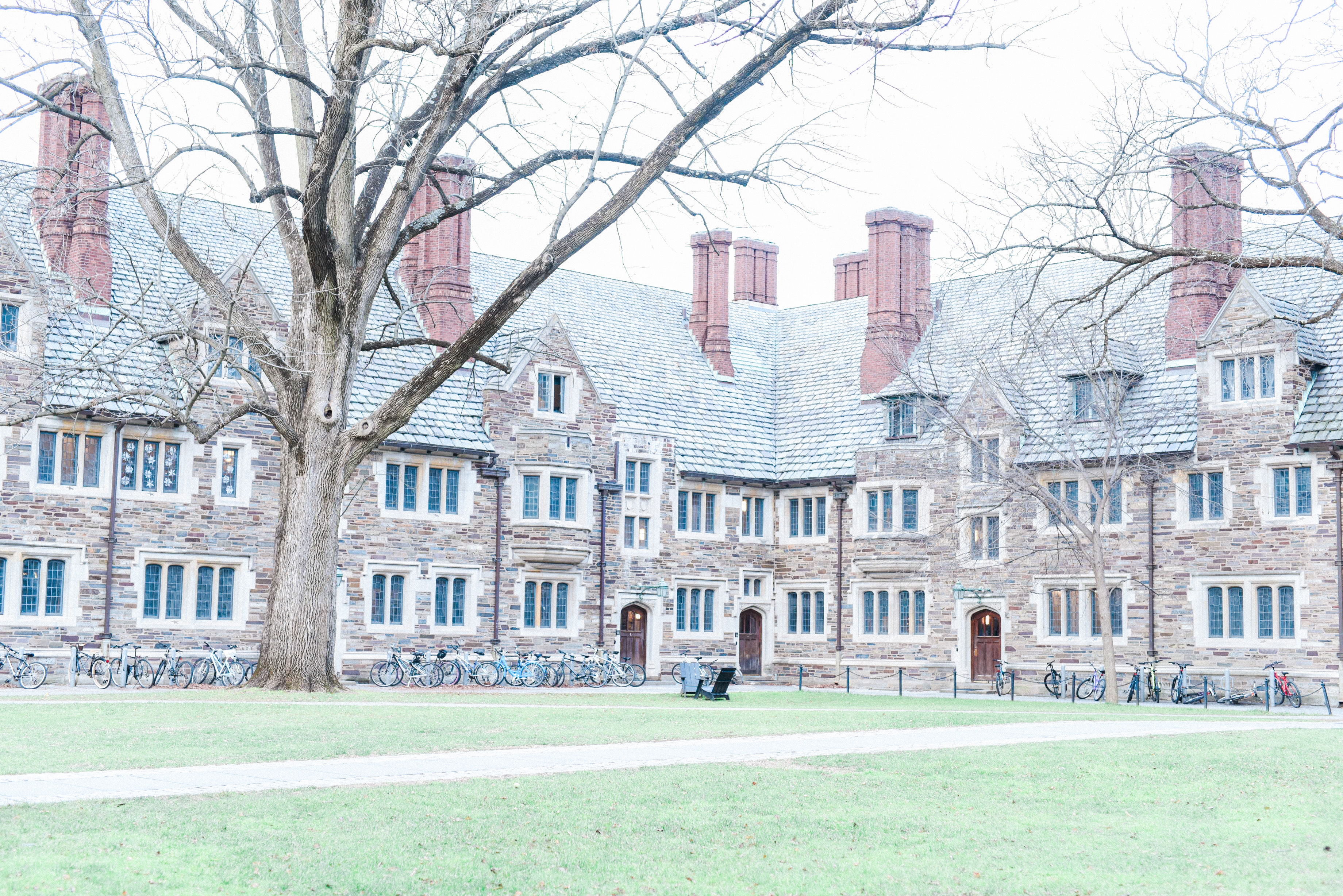 The Princeton campus, December 2016.